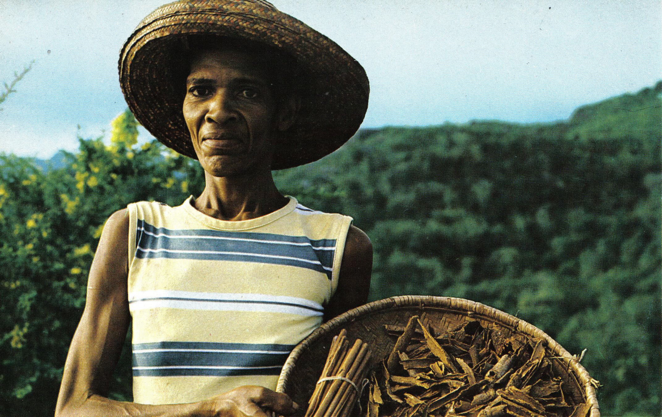 Cinnamon quill-maker displays her wares: a tied up boundle of quills and a sample of scrapped cinnamon bark.